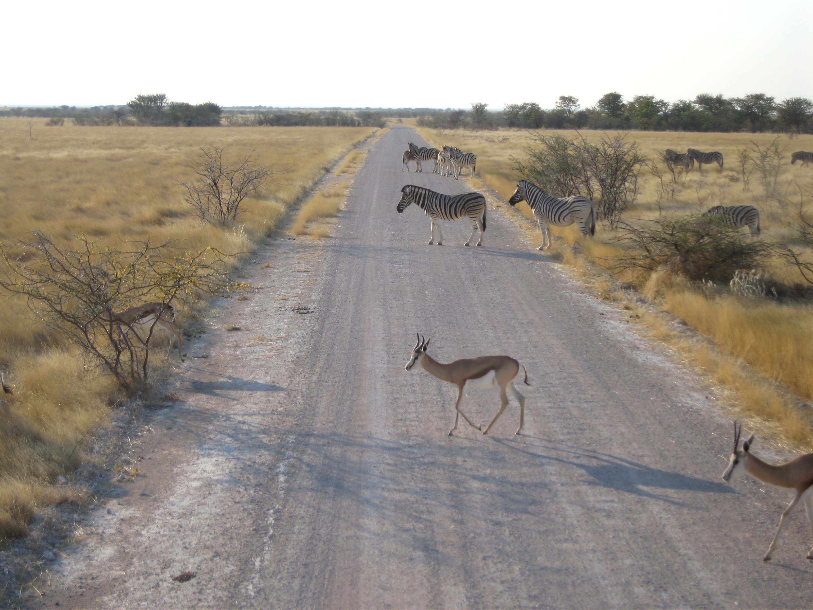 Burchell's zebras (Equus quagga burchellii) and springboks (Antidorcas marsupialis) between Okaukuejo and Halili, Etosha National Park.